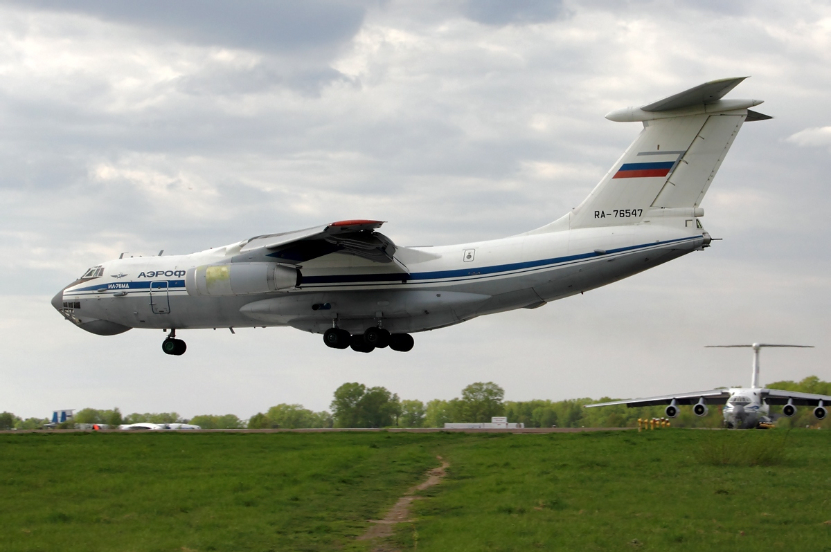 Russian Air Force Ilyushin Il-76MD